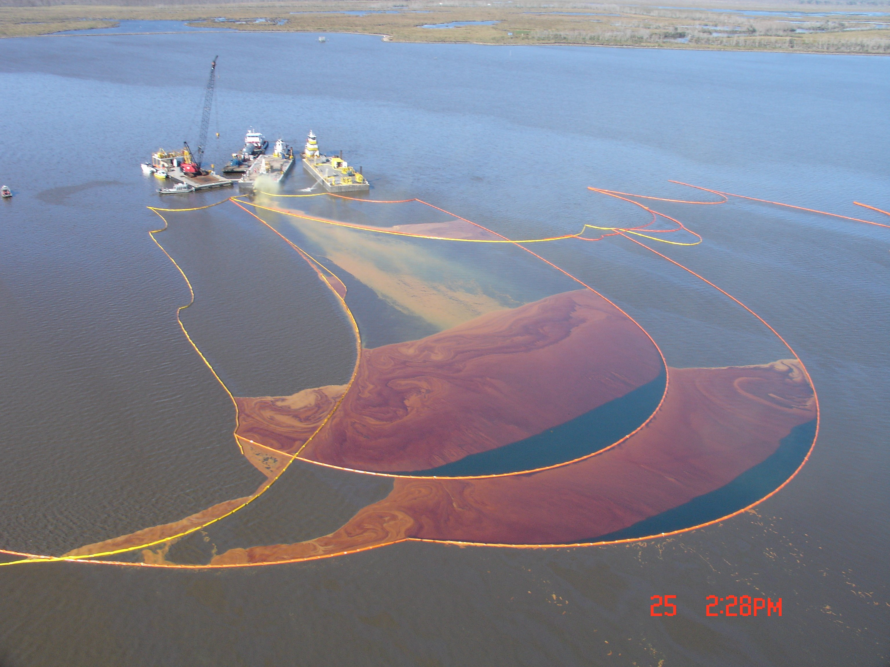 Skimming oil off the Southeast coast.